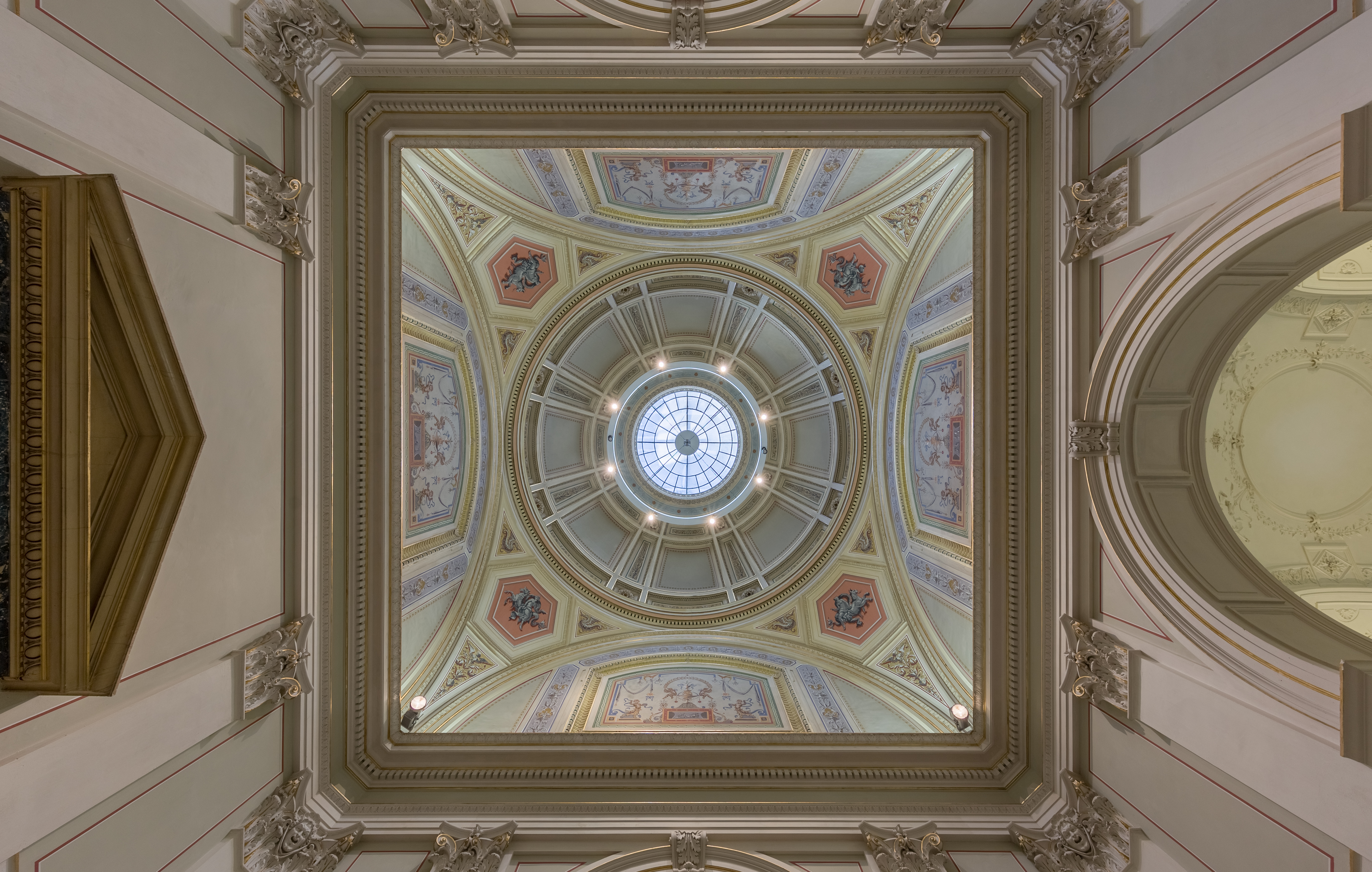 Vestibül in front of the big ballroom in the main building of the University of Vienna